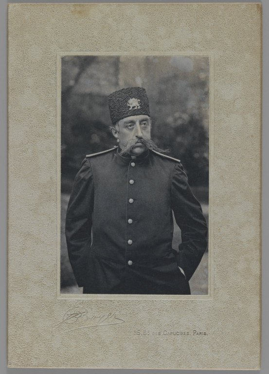 One of 274 Vintage Photographs